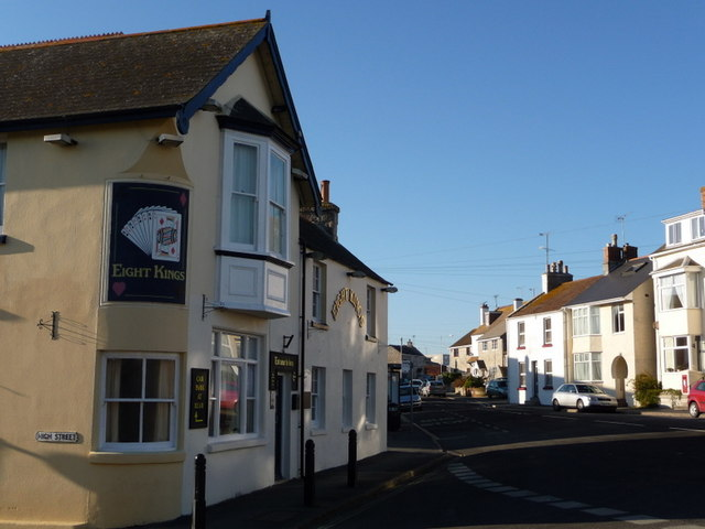 Portland: the Eight Kings A pub in the centre of Southwell, the most southerly village on Portland.